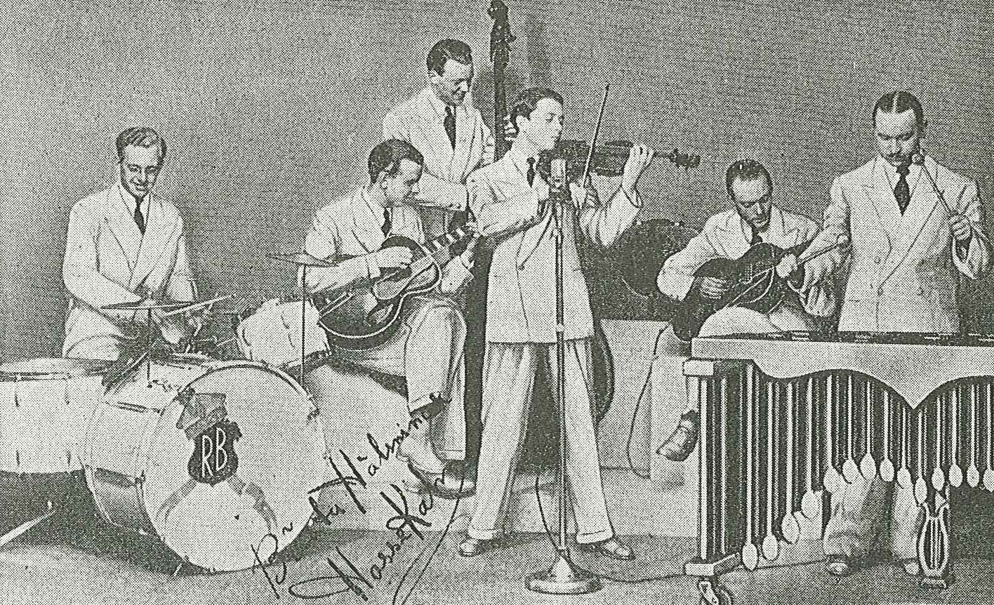 Swedish jazz violinist Hasse Kahn (born 1923) with his "recording orchestra" circa 1942. The guitarist to the right of Kahn is Sven Stiberg, the vibraphonist is Thore Swanerud.